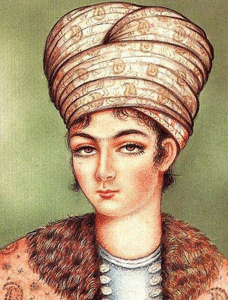 Image of Lotf Ali Khan Zand at Emamzadeh Zeid in Tehran